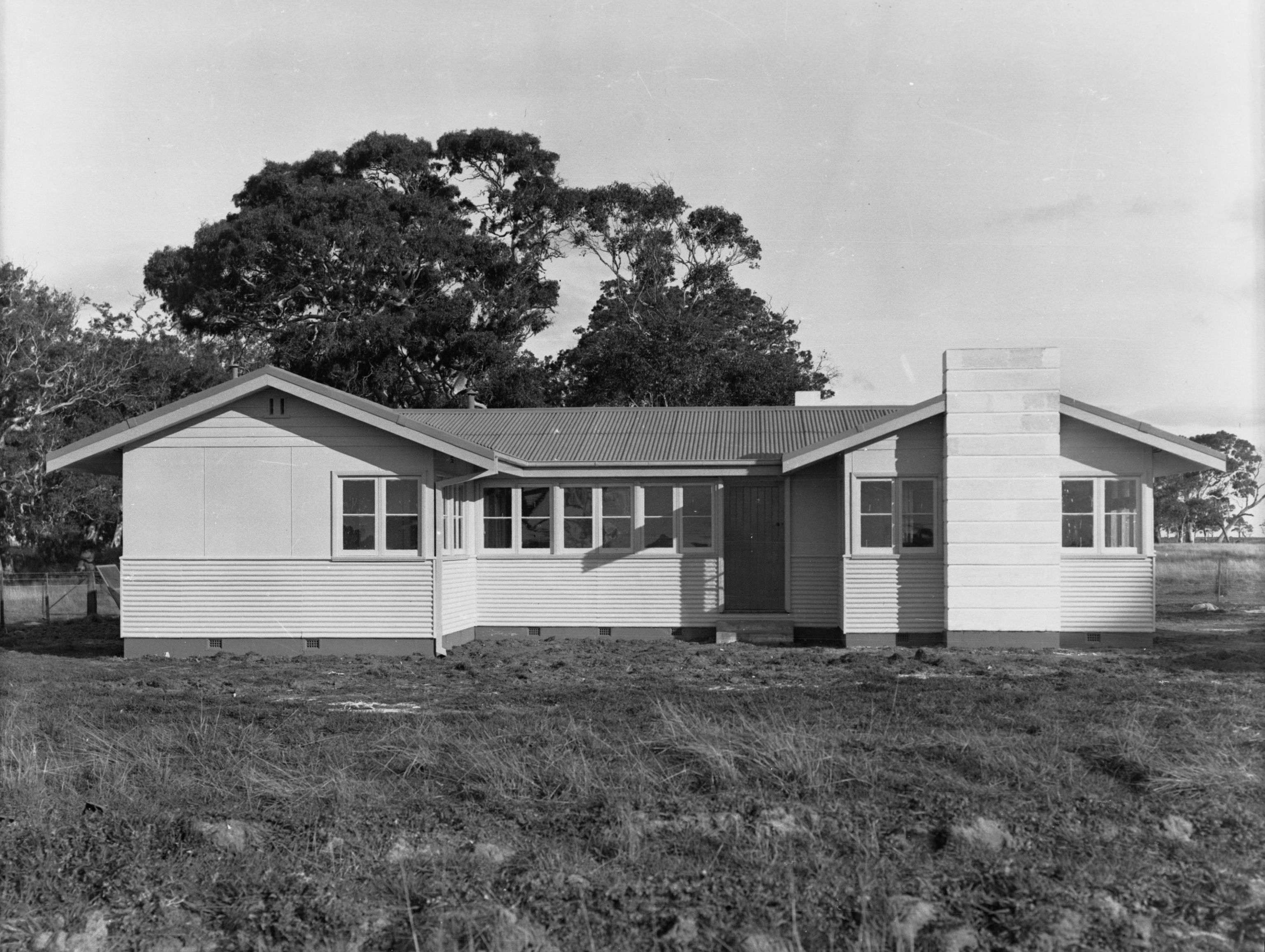 GN11076A indicates that the home in GN11064 through to GN11076A was at Mingbool (G. Brooks).